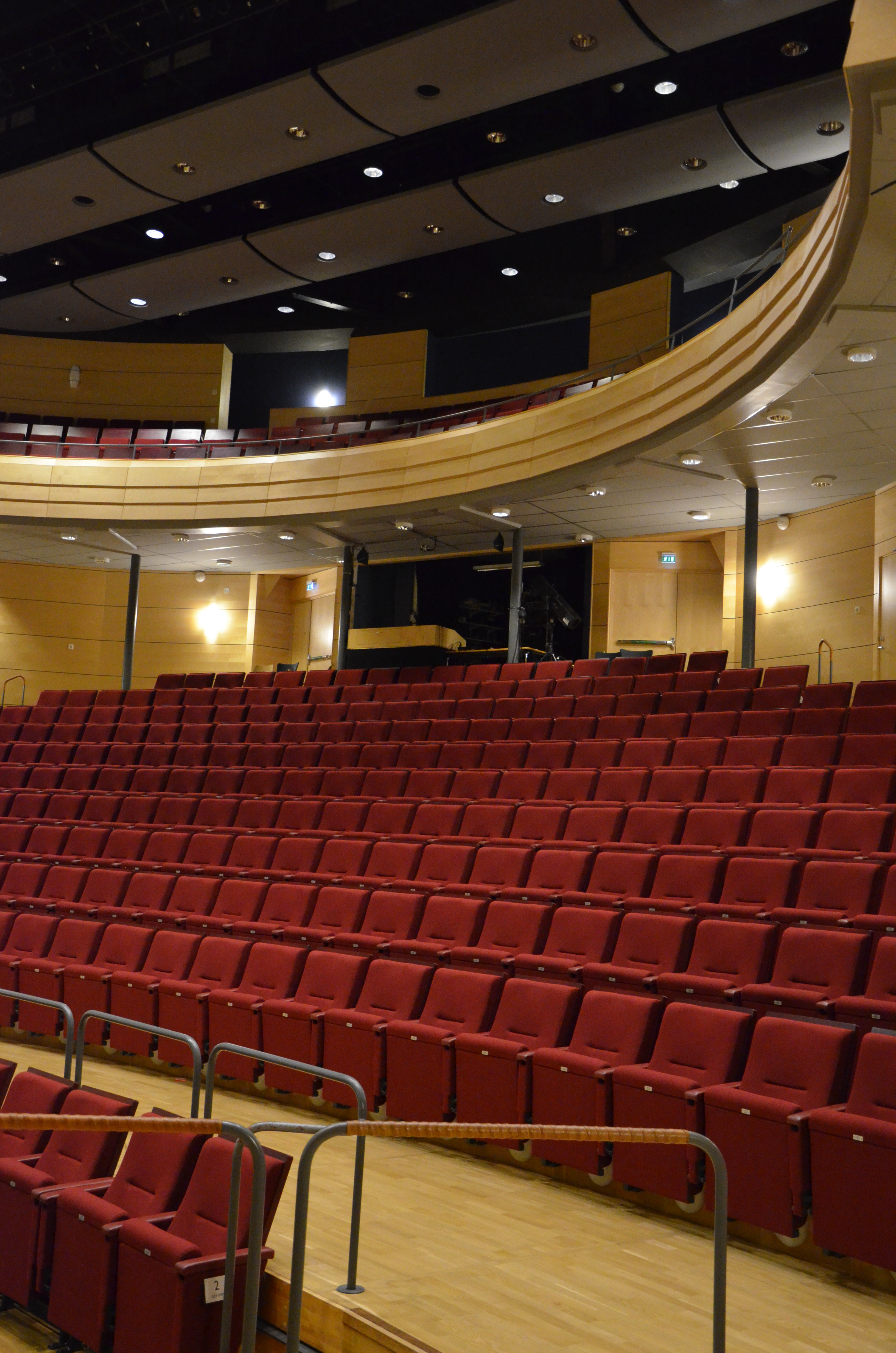 Vara Concert Hall